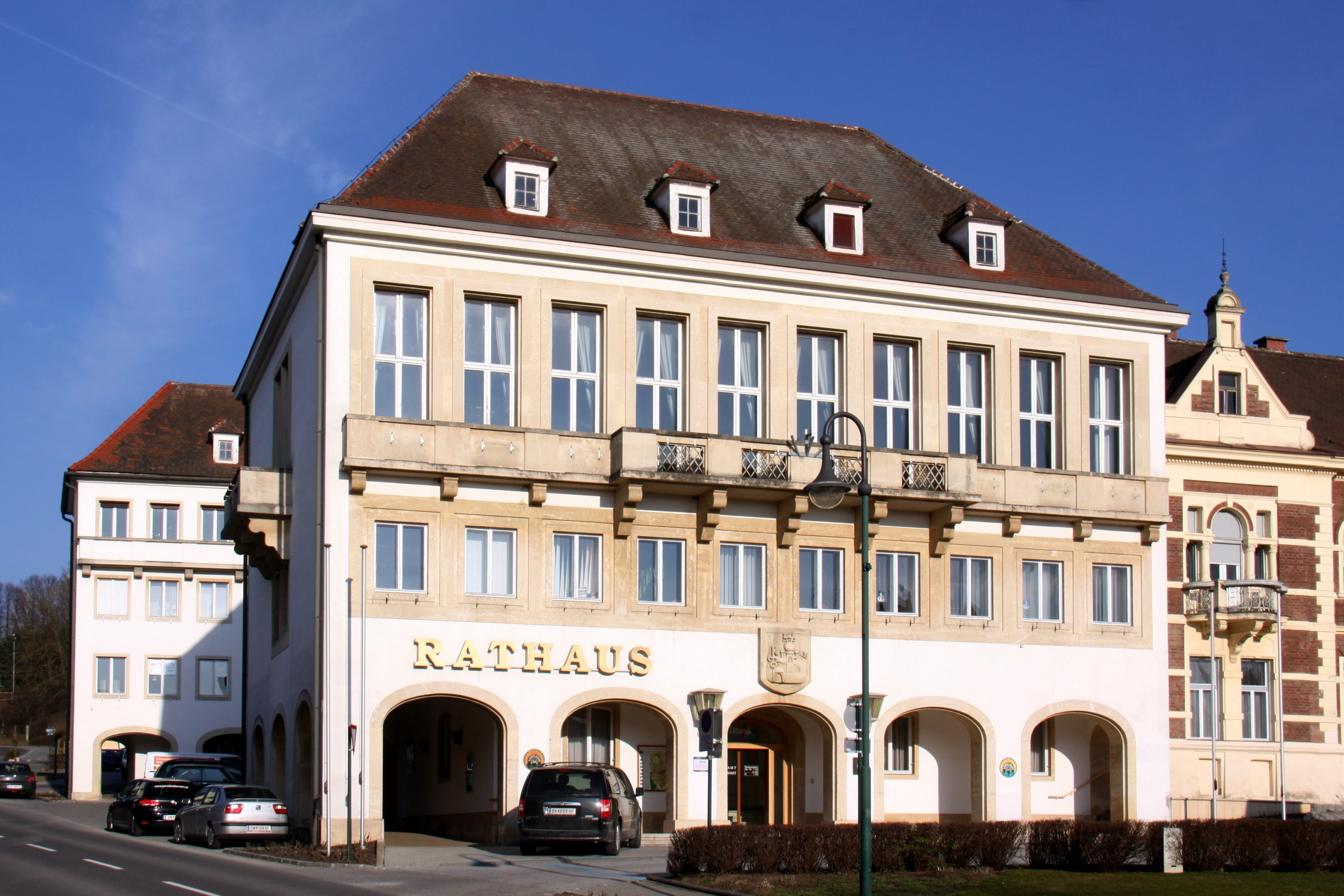 Pinkafeld - town hall